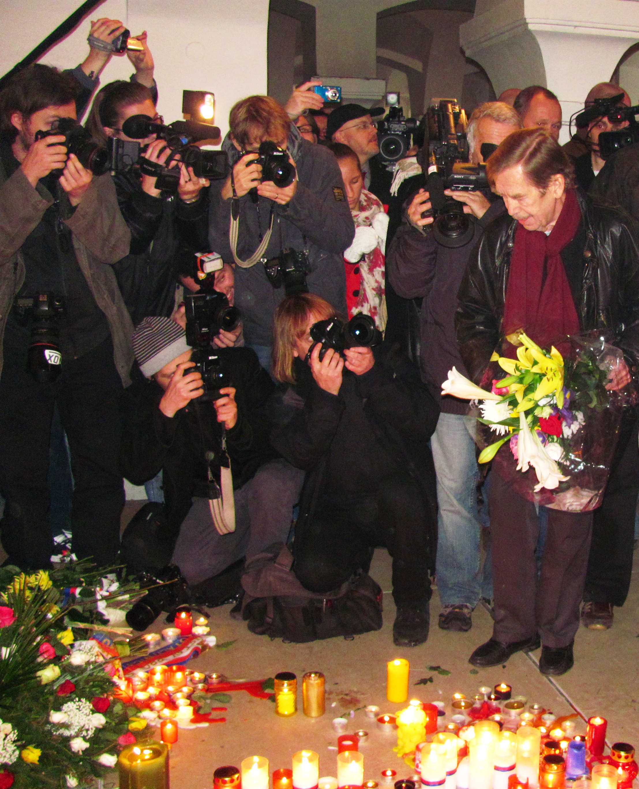 Václav Havel, Fmr. President of the Czech Republic at Velvet Revolution Memorial (Národní Street, Prague) in 2010